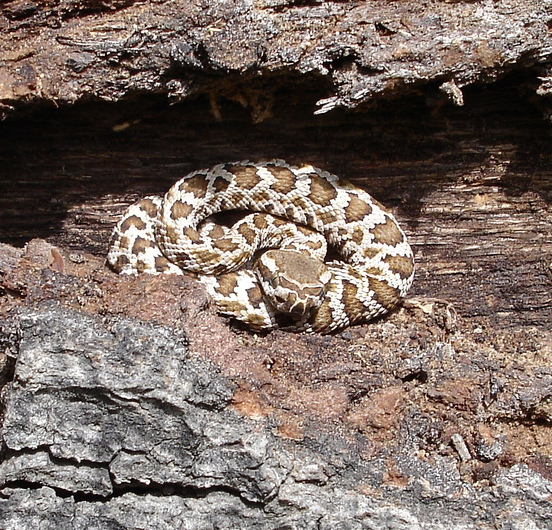 Crotalus viridis - Southern Pacific rattlesnake juvenile